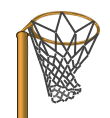 Icon image of a Netball hoop with transparent background (white matte) - for use by Wikiproject Netball